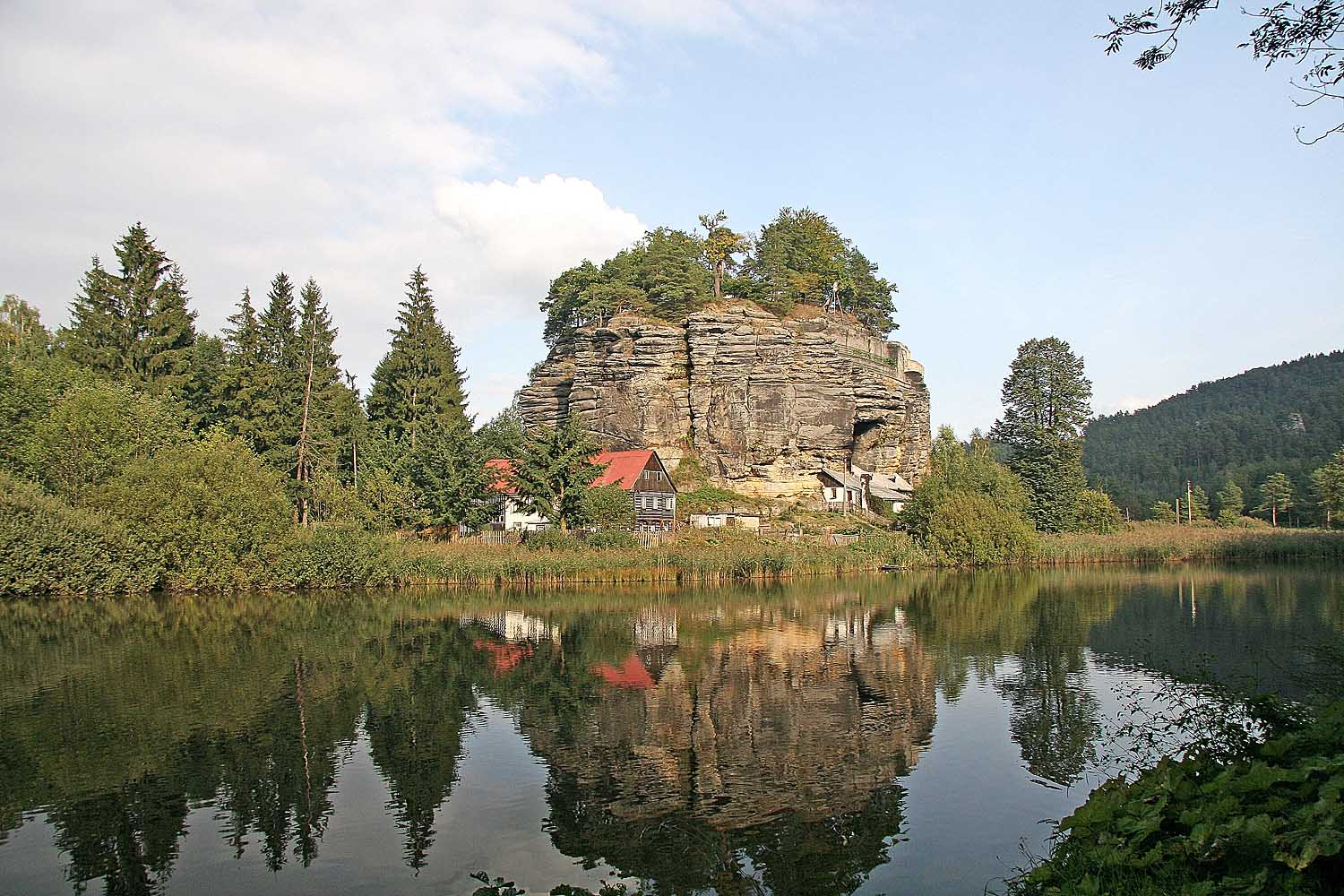 Sloup Castle in village of Sloup v Čechách, Česká Lípa District, Czech Republic autor:Prazak date: 20. 9. 2004